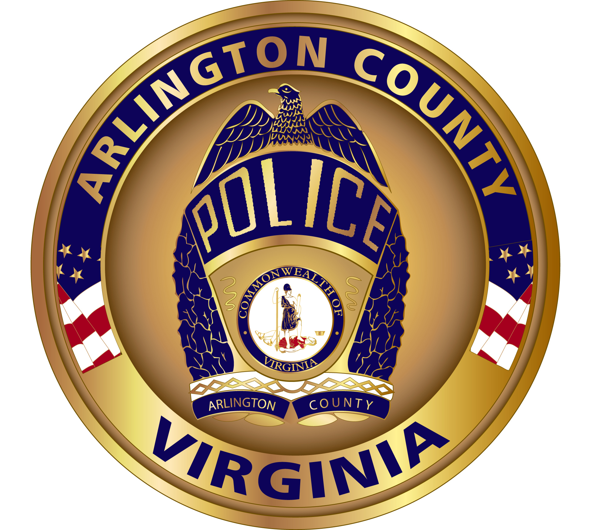 Arlington Police medallion